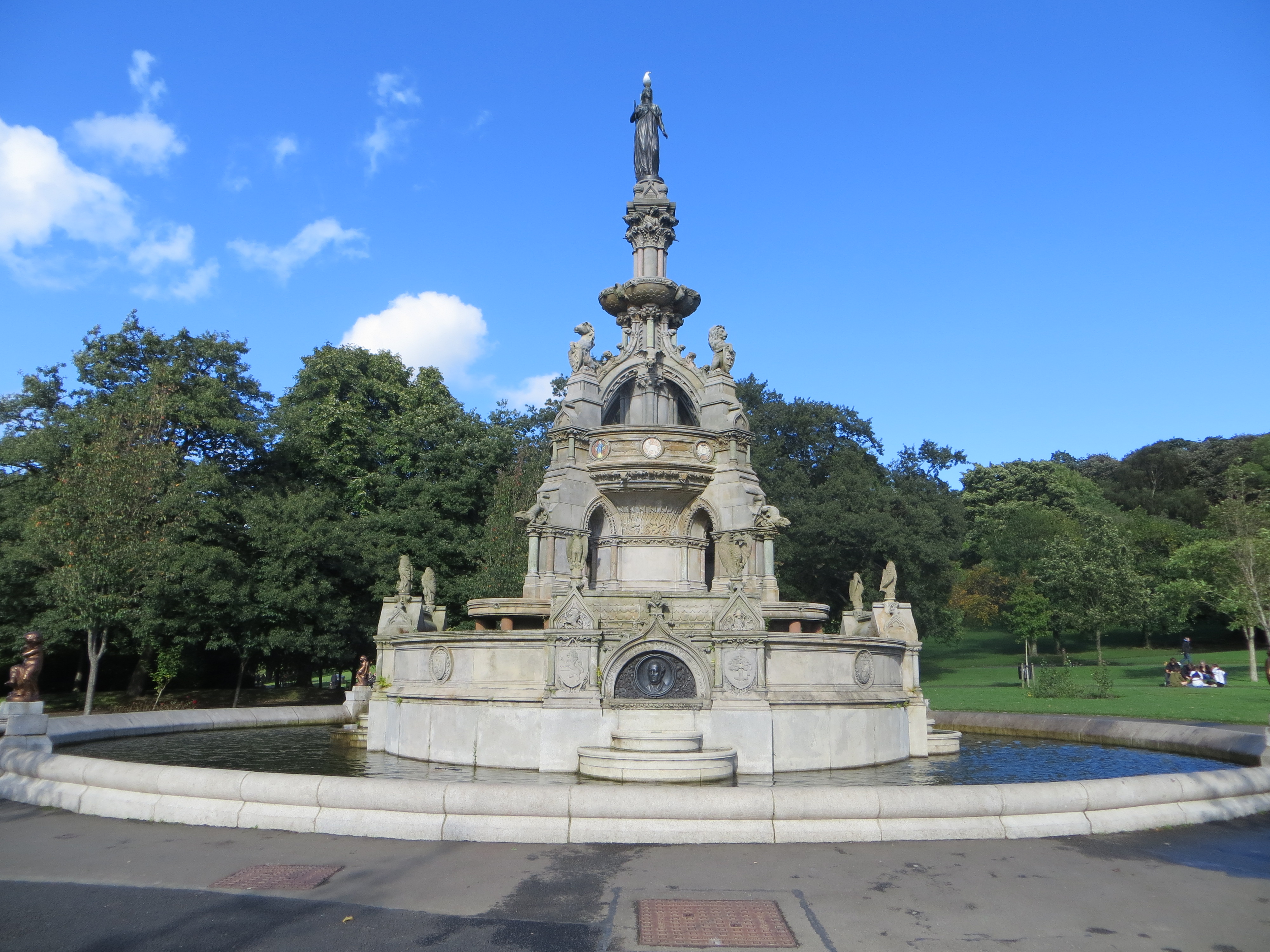 Stewart Memorial Fountain